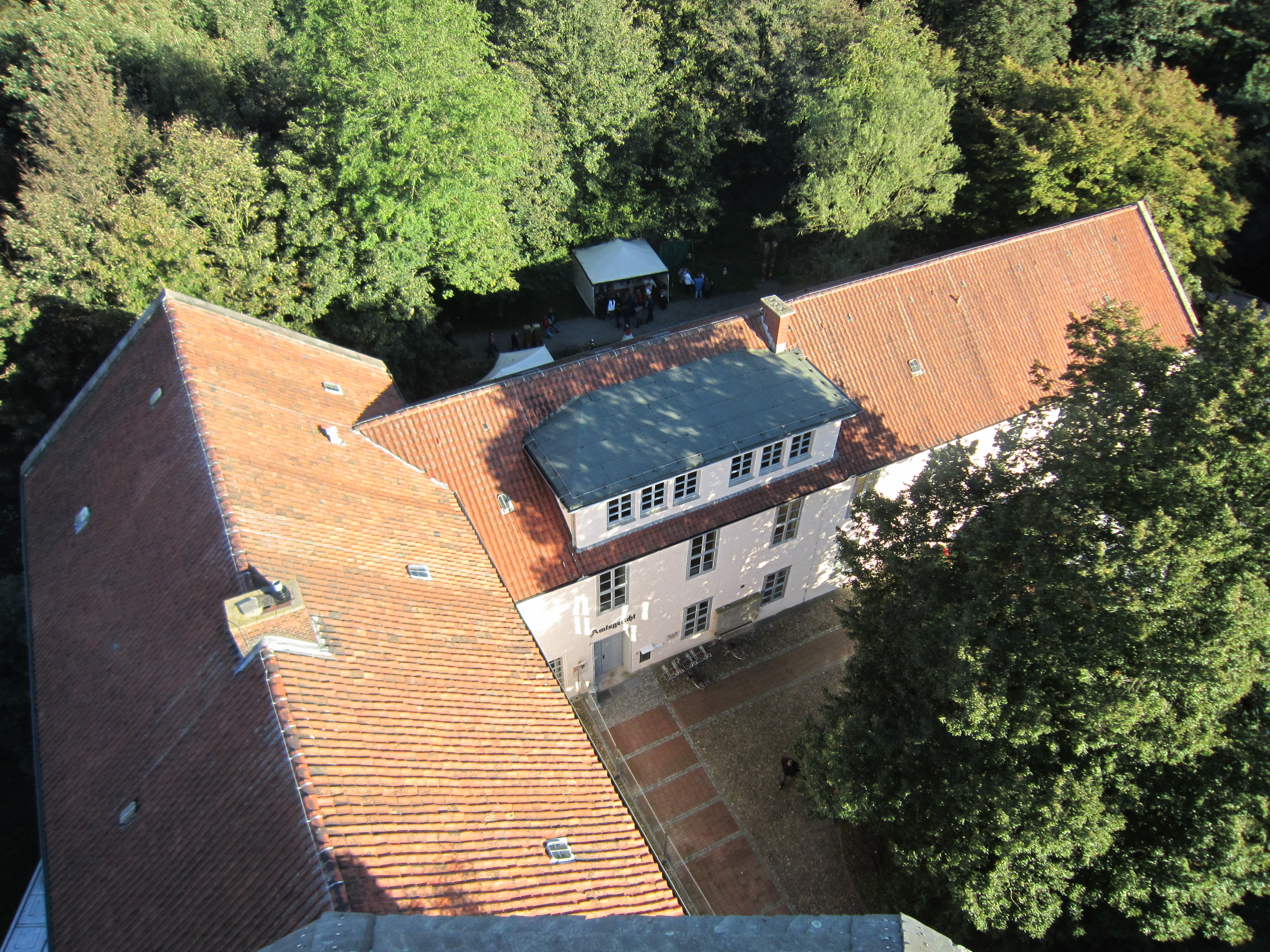 View from the tower of Diepholz Castle to the court of justice